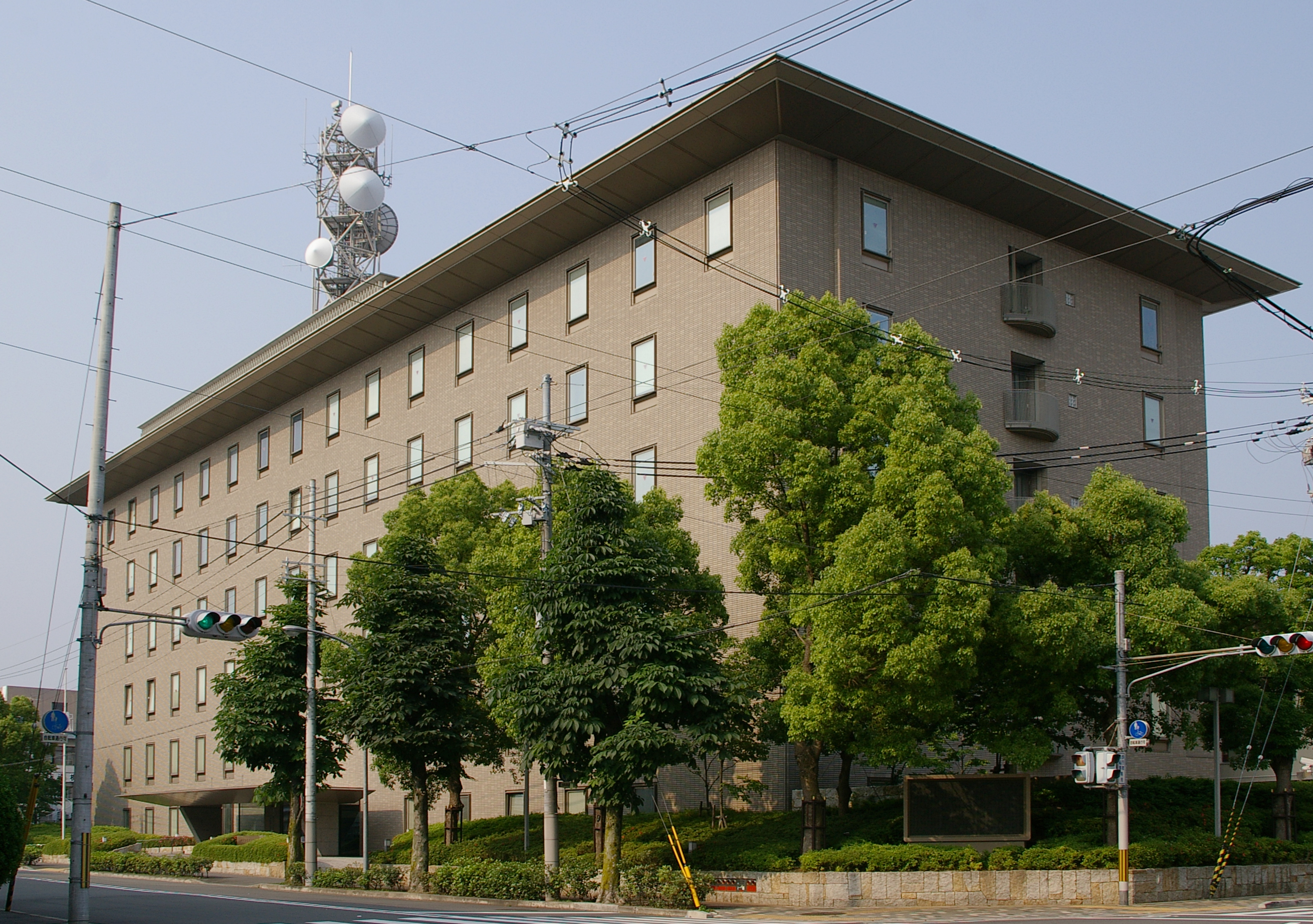 Photograph of Communication and Command Center of Kyoto Prefectural Police Headquarters in Kamigyo-ku, Kyoto, Kyoto Prefecture, Japan.